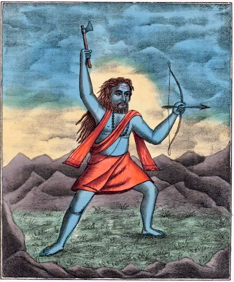 Parashurama, Sixth Avatar of Vishnu - Hindu Art Studio, Calcutta c1880's Source: Om from India Facebook Page Labels: 19th Century, Lithograph, Print